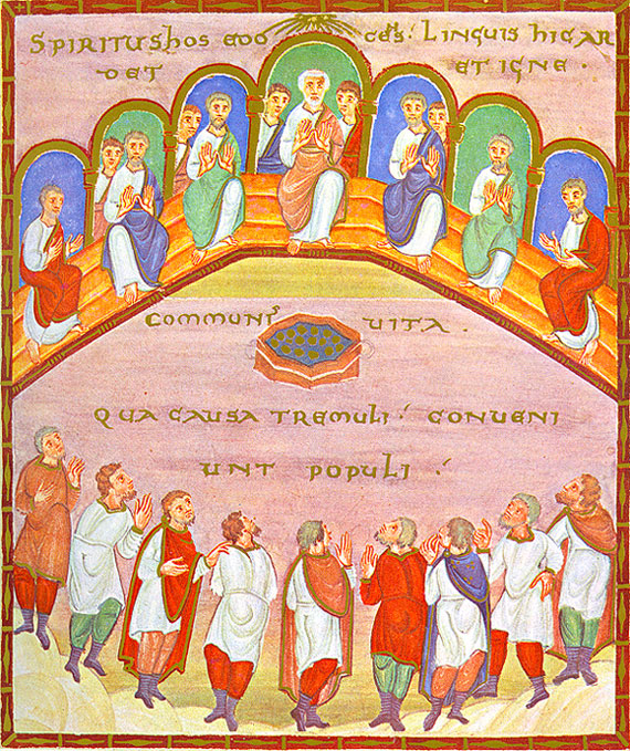 Pentecost